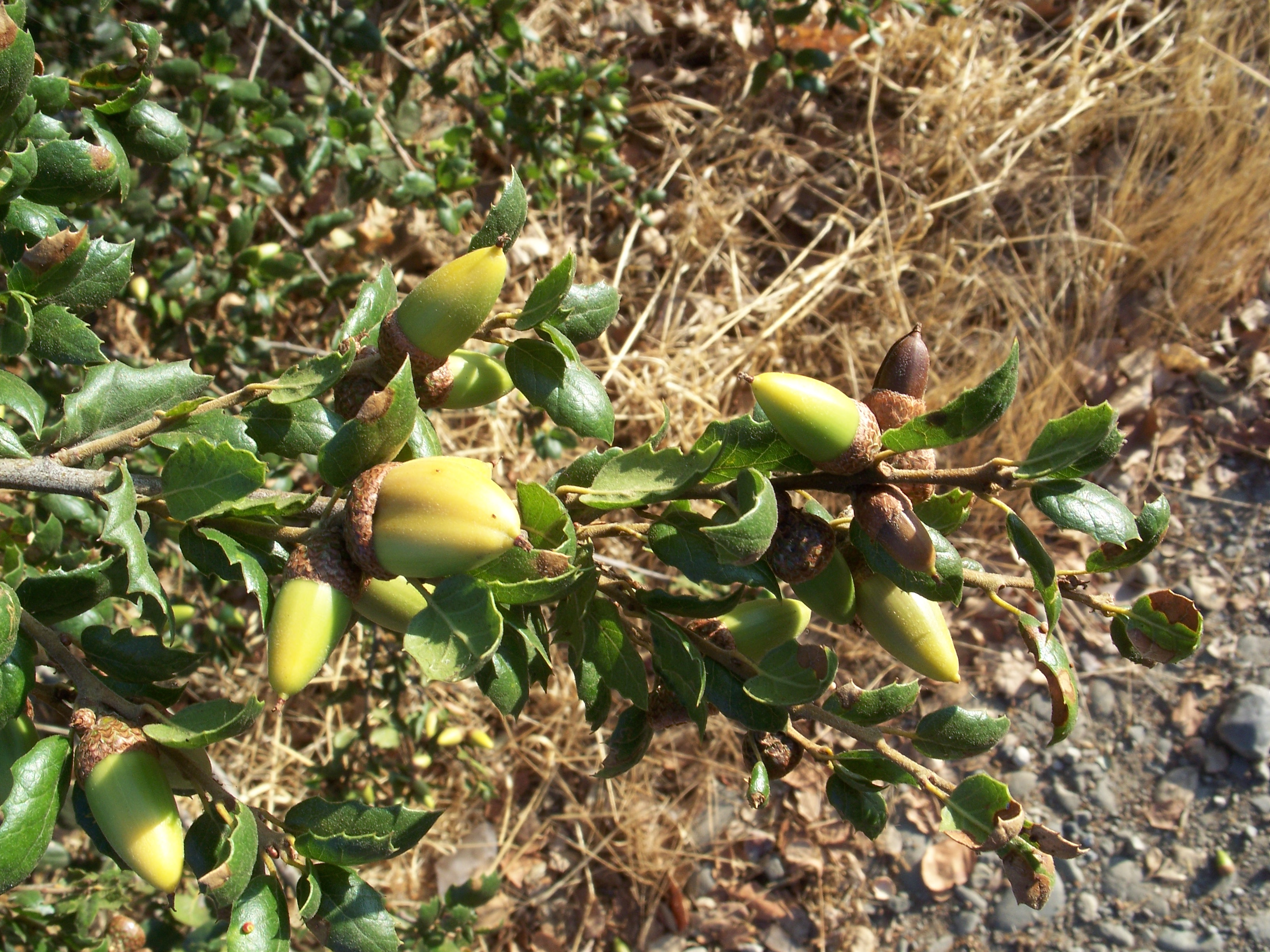 Coast Live Oak. San Jose, California.